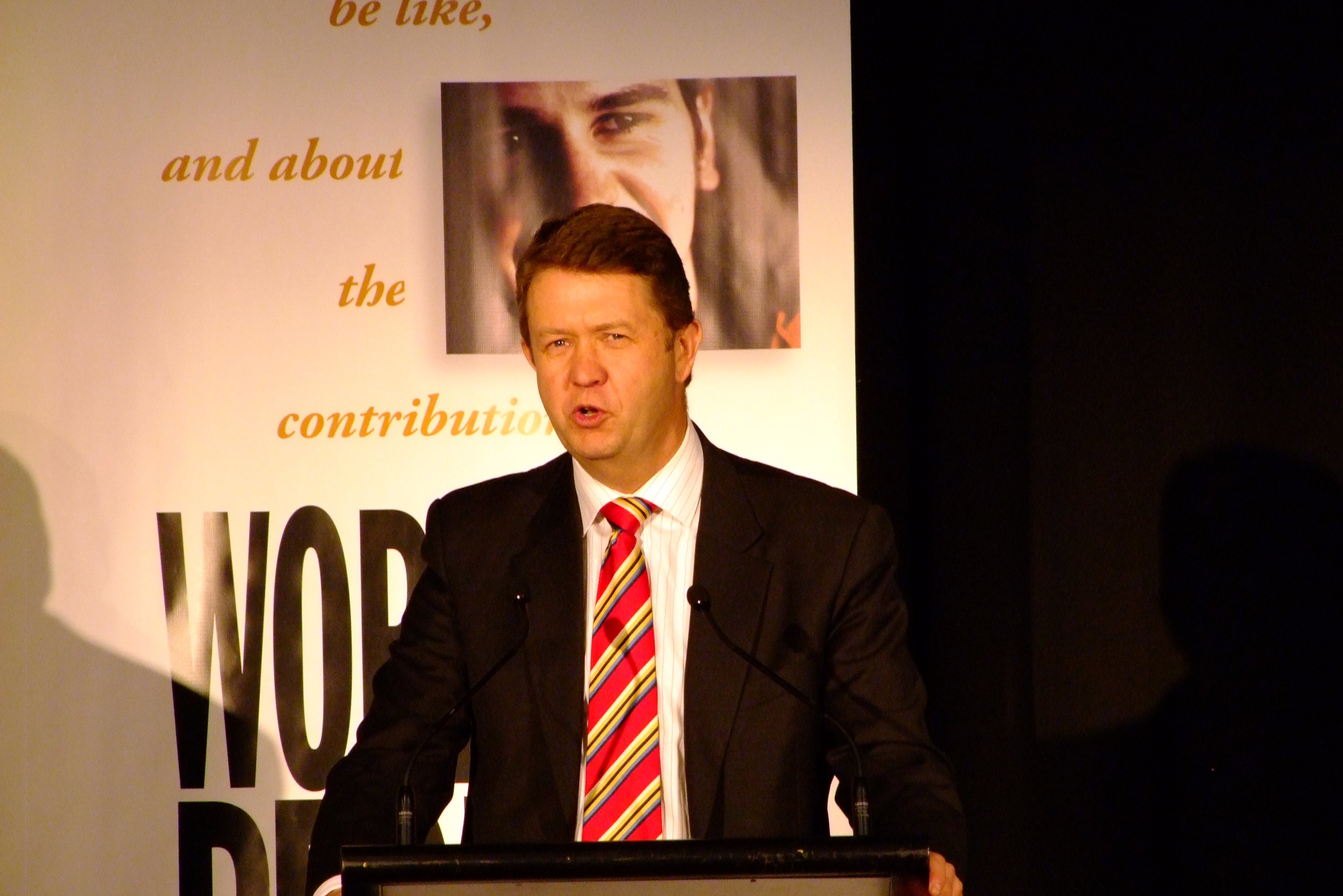 9 October 2013 Mercure Hotel, Wellington